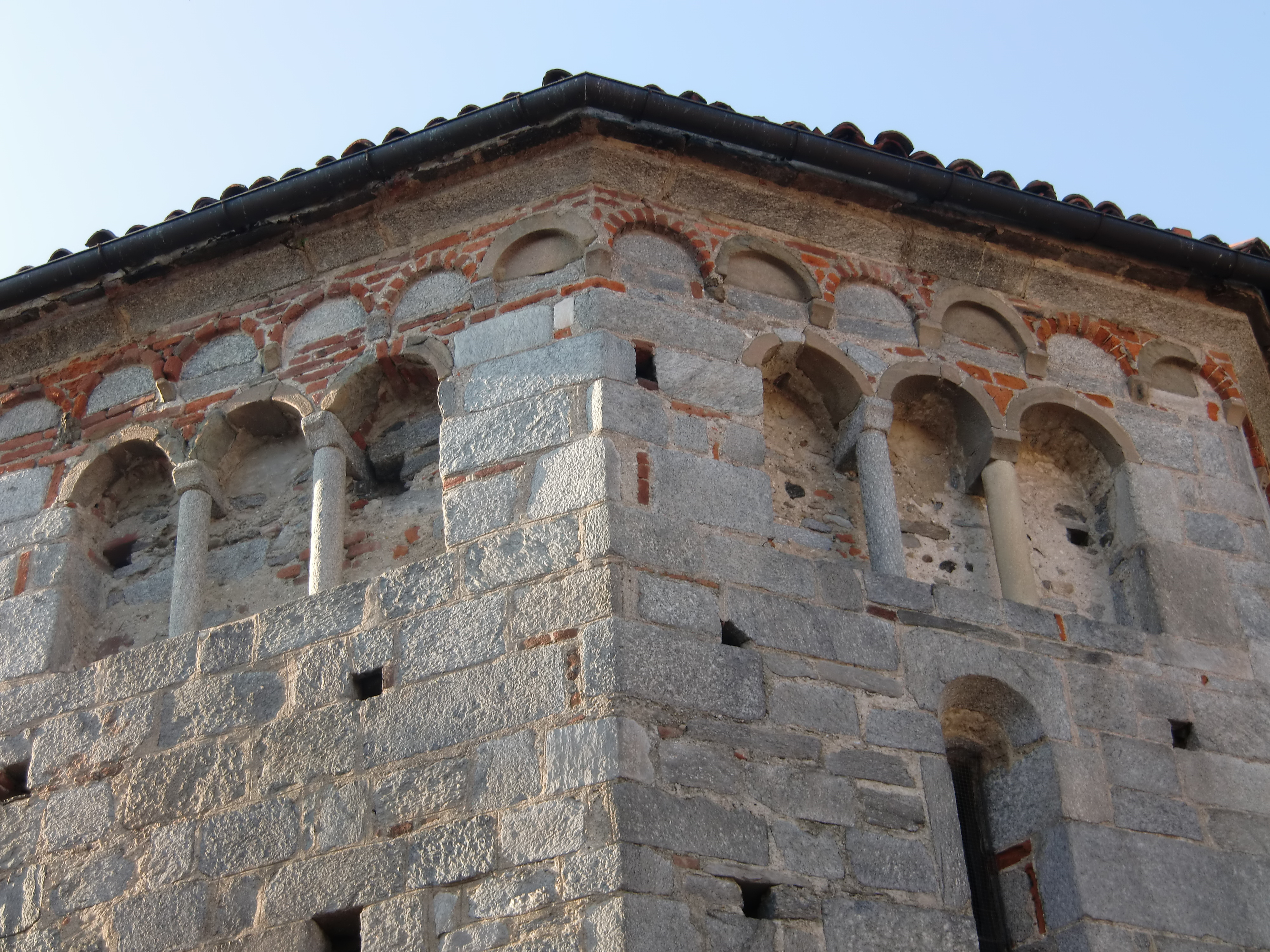 Baptistery dedicated to St. John the Baptist, romanesque architecture, XII century, Agrate Conturbia, province of Novara, Italy